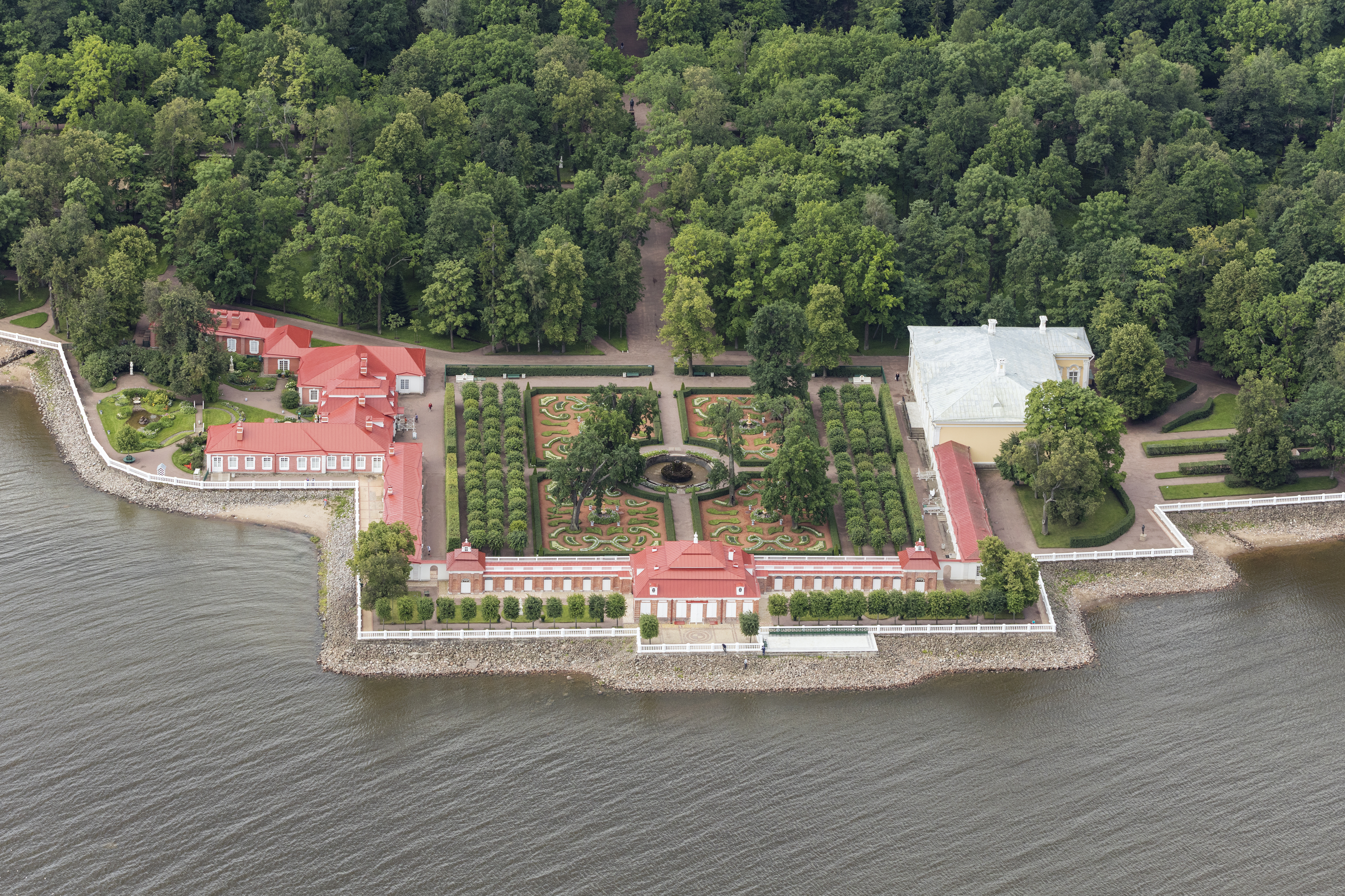 Monplaisir Palace, in the lower park of Peterhof Palace, Petergof, Saint Petersburg, Russia.